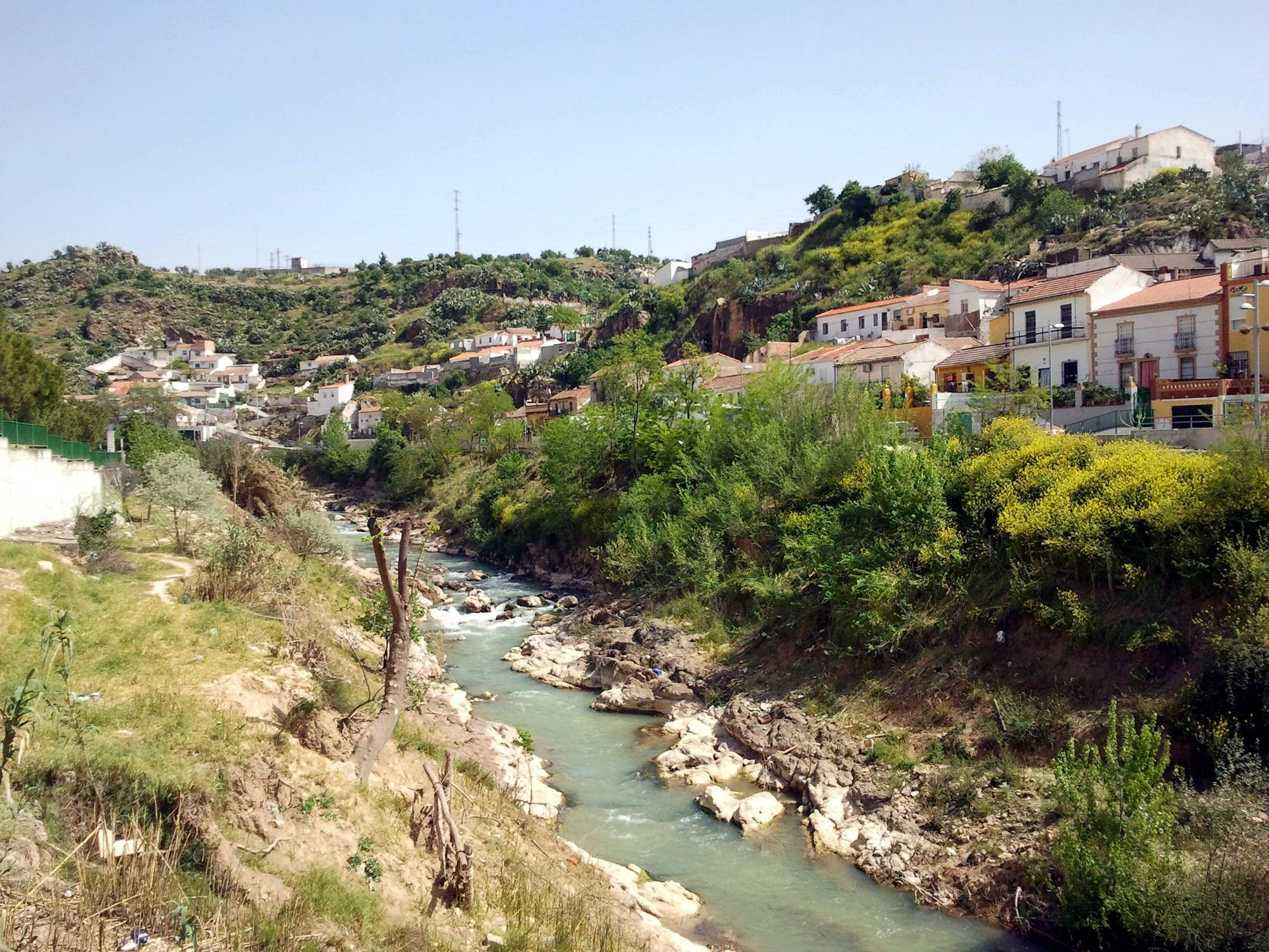 Cubillas river at Pinos Puente.